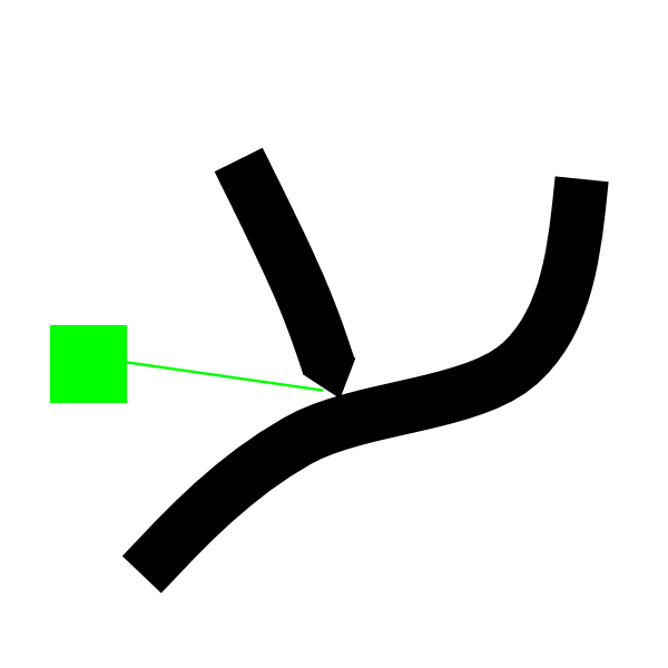 tangenting T-crossing